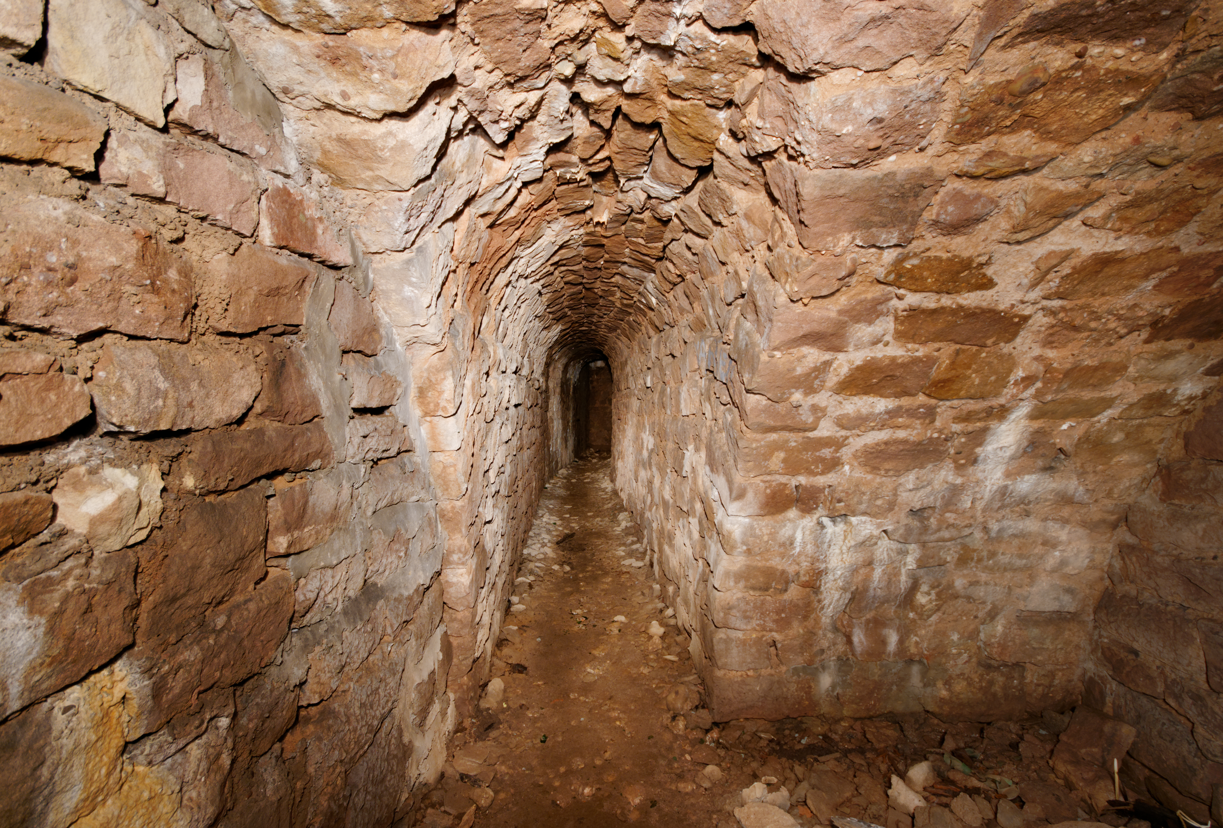 This photograph was taken with a Nikon D300 Fort d'Arches : reste de l'ancienne caponnière de saillant II (lightpainting)